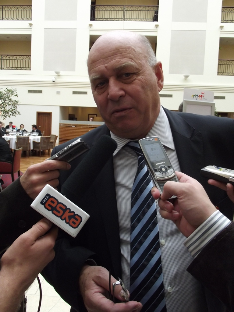 Grzegorz Lato after UEFA EURO 2012 qualifying play-offs draw, that took place in Sheraton Hotel in Cracow.